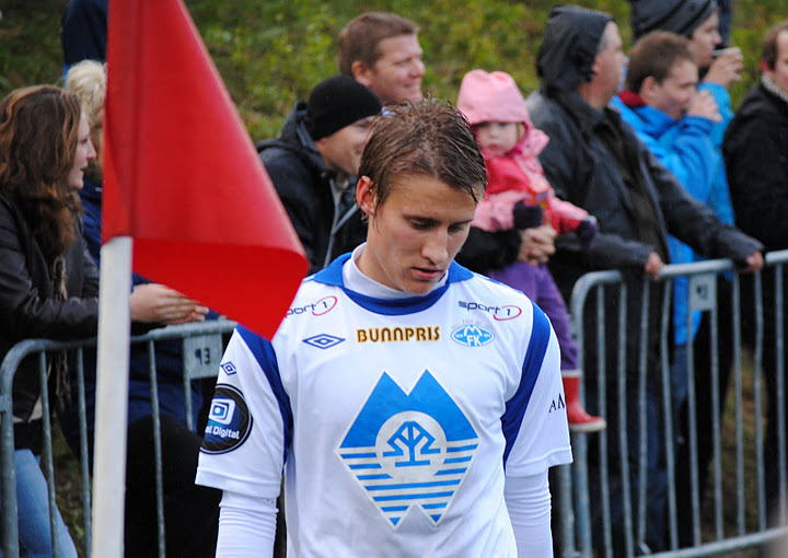 Molde FK player Magnus Stamnestrø in a cup match against Tiller, May 25, 2011.